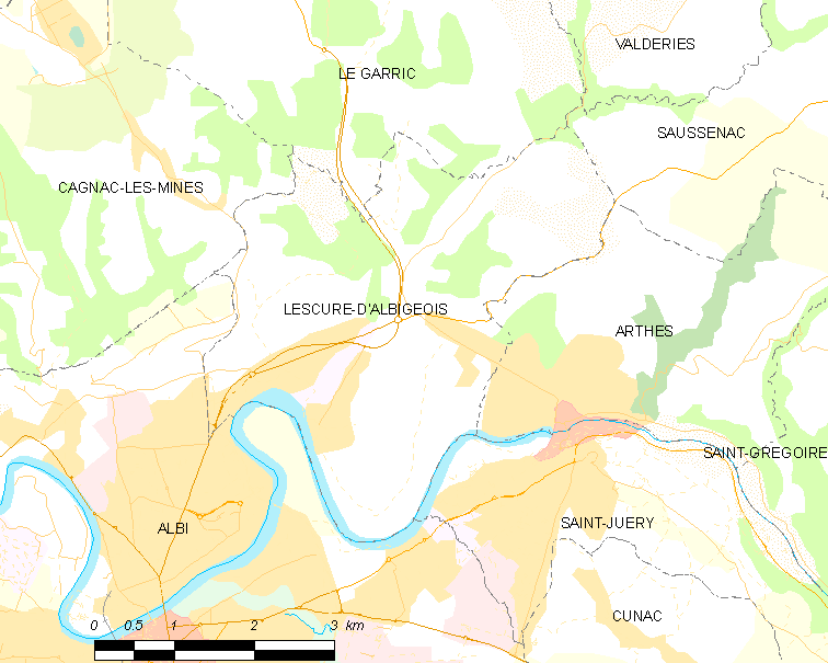 Map of French municipality Lescure-d'Albigeois